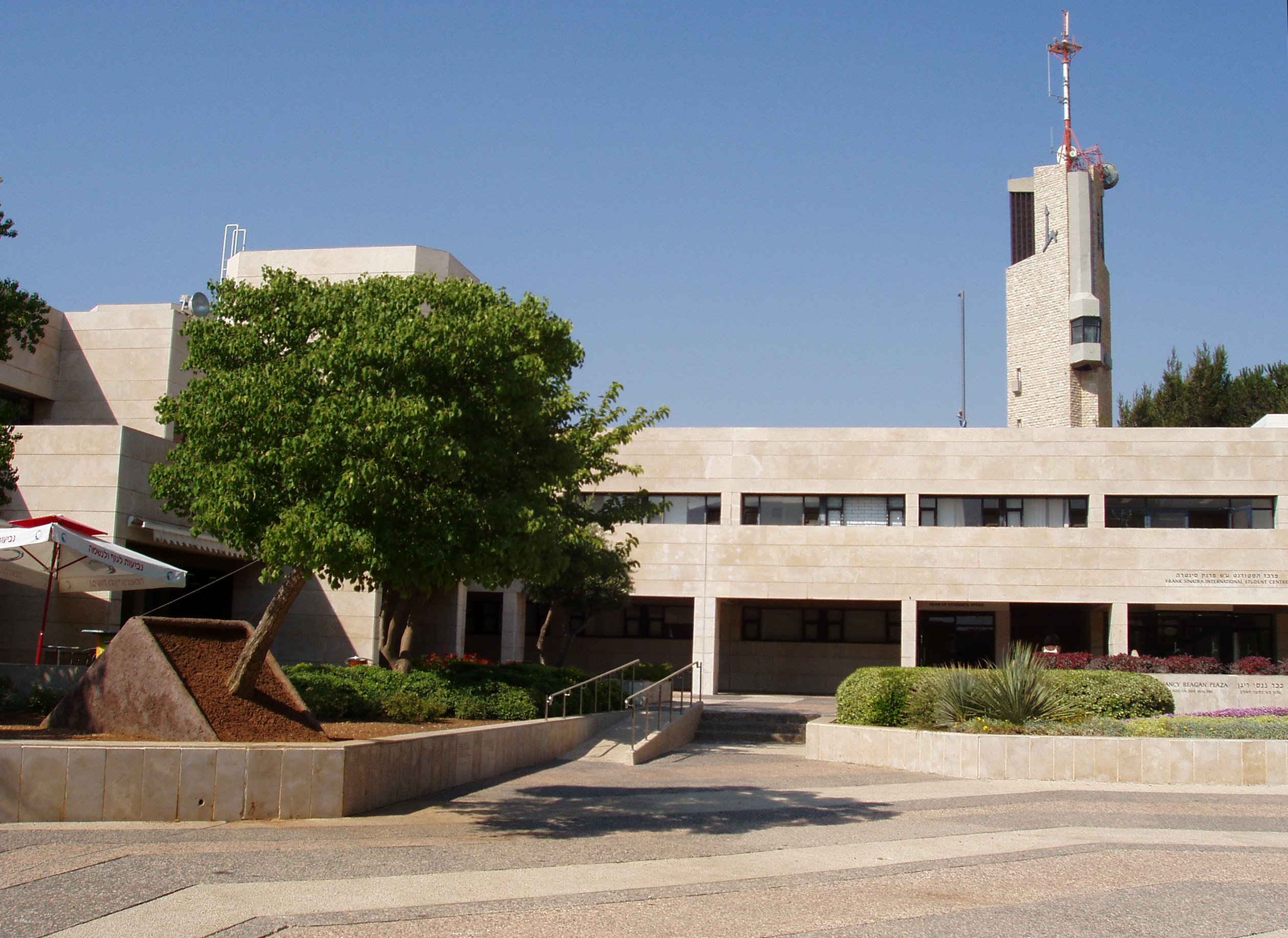 Hebrew University, Campus Mount Scopus: right - Frank Sinatra International Student Centre, left - entrance to Frank Sinatra restaurant, place of July 31st 2002 terrorist attack, the tree is an artistic installation in remembrance of the attack.